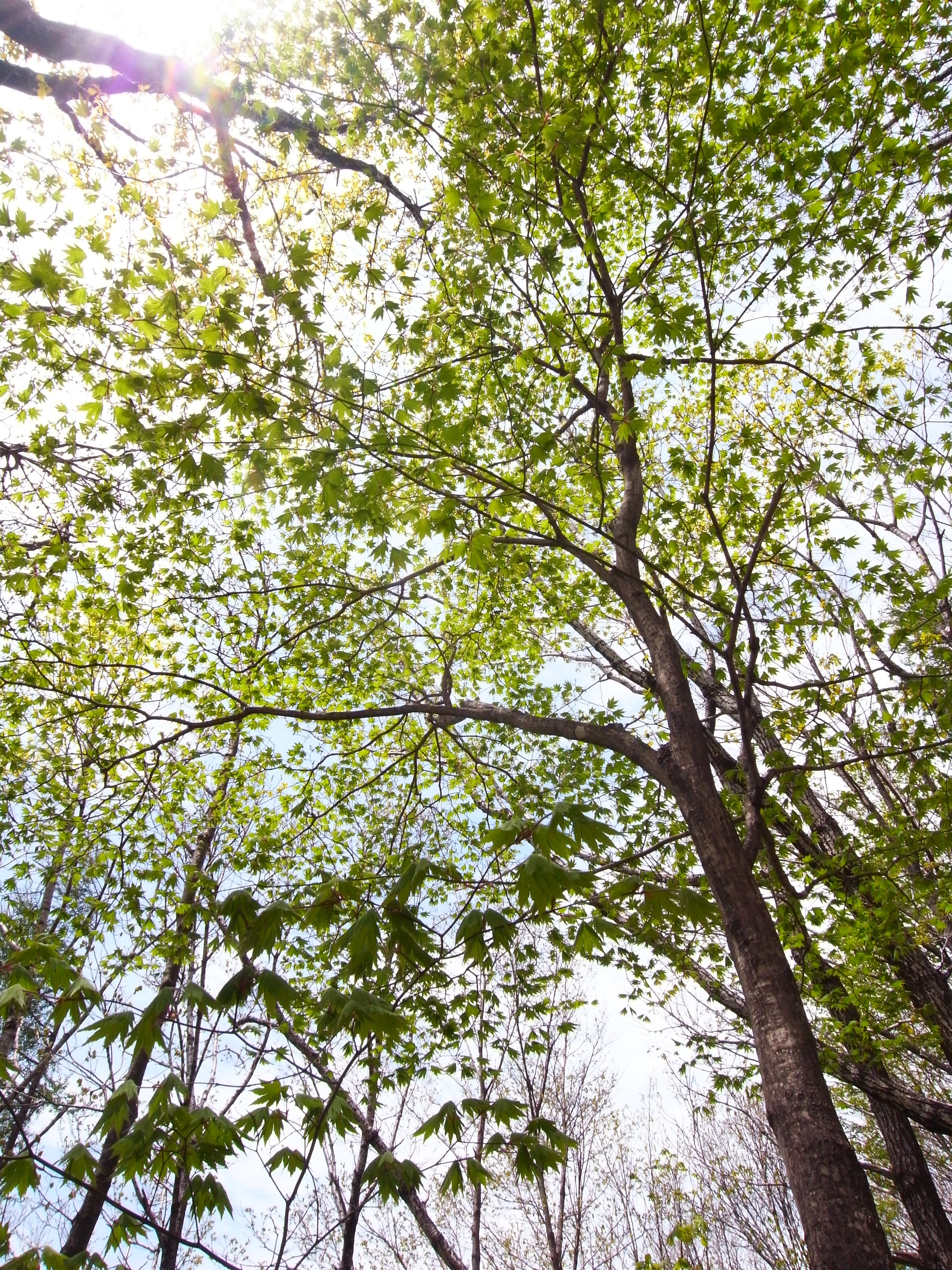 Acer pseudosieboldianum at Jirisan mountain, Korea